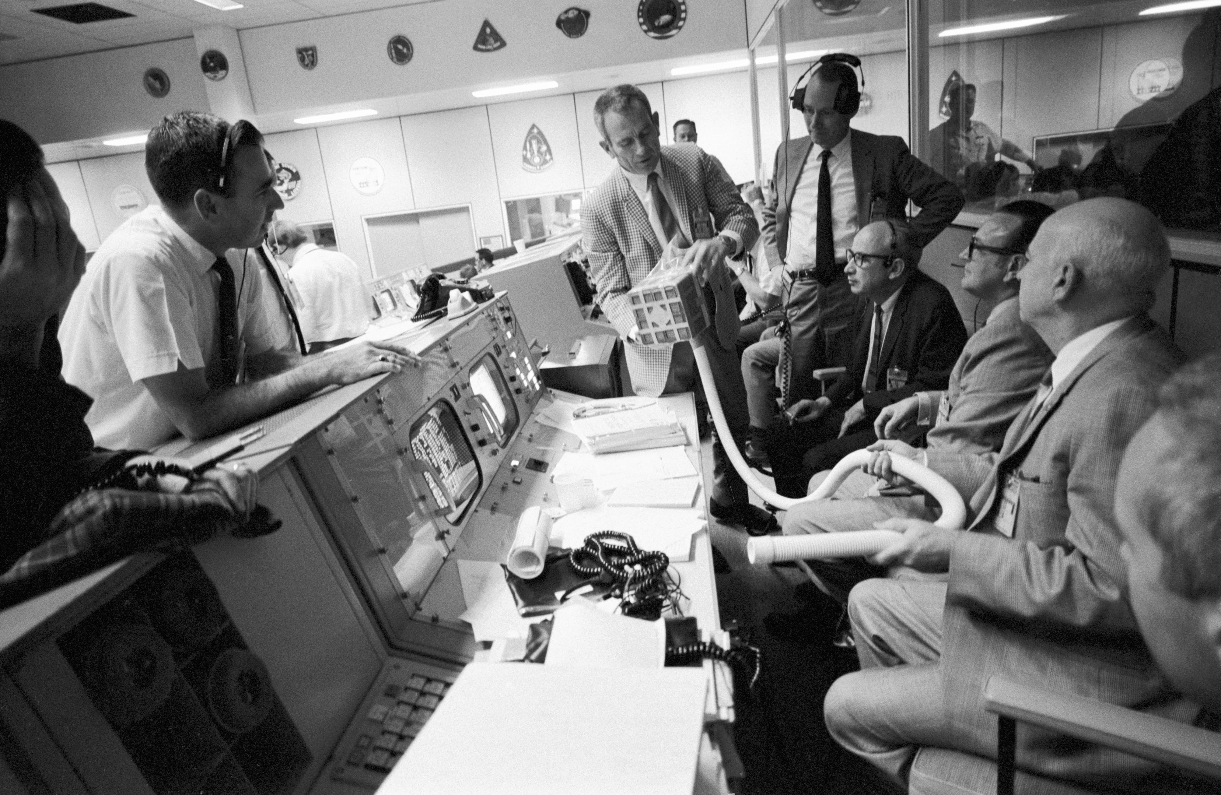 Deke Slayton (checked jacket) shows the adapter devised to make use of square Command Module lithium hydroxide canisters to remove excess carbon dioxide from the Apollo 13 LM cabin. As detailed in Lost Moon by Jim Lovell and Jeffrey Kluger, the adapter was devised by Ed Smylie. From left to right, members of Slayton's audience are Flight Director Milton L. Windler, Deputy Director/Flight Operations Howard W. Tindall, Director/Flight Operations Sigurd A Sjoberg, Deputy Director/Manned Spaceflight Center Christopher C. Kraft, and Director/Manned Spaceflight Center Robert R. Gilruth.